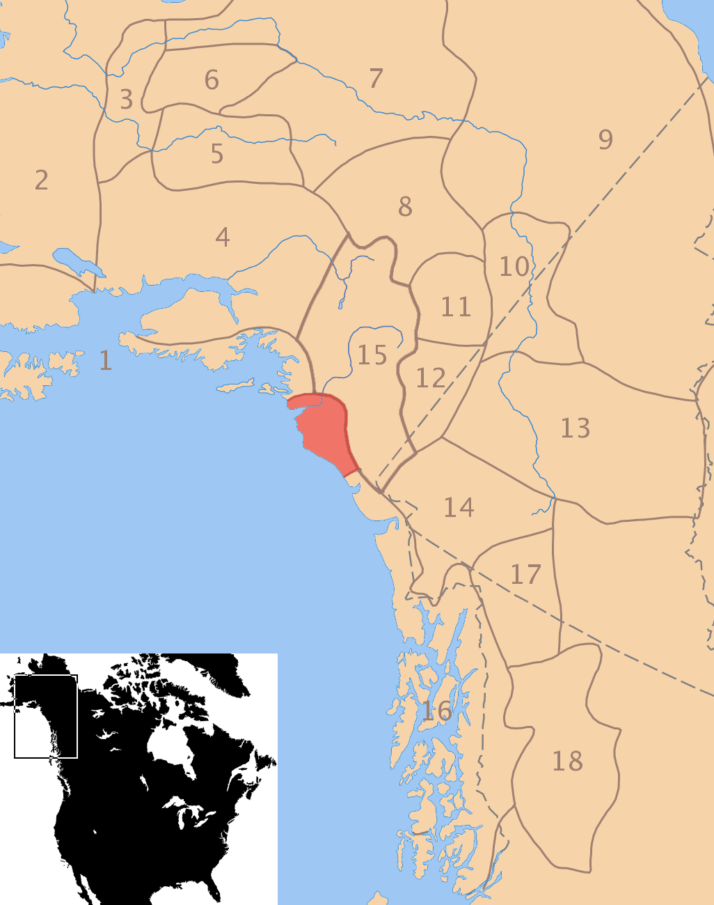 Pre-contact distribution of Eyak speakers Contents 1 Summary 2 Sources 3 Licensing 4 Original upload log Summary This map shows the distribution of Eyak speakers before European-contact. Present-day country and state boundaries are provided for reference (with broken gray dashes). Neighboring peoples are delineated with brown boundaries and are identified by number as follows: Pacific Yupik Central Alaskan Yupik Deg Xinag Denaʼina Upper Kuskokwim Holikachuk Koyukon Tanana (a.k.a. Lower Tanana, Minto) Gwichʼin Hän Tanacross (a.k.a. Nabesna, Transitional Tanana) Upper Tanana (a.k.a. Nabesna) Northern Tutchone Southern Tutchone Ahtna Tlingit Tagish Tahltan Sources Goddard, Ives. (1996). Native languages and language families of North America [Map]. In I. Goddard (Ed.), Handbook of North American Indians: Languages (Vol. 17). (W. C. Sturtevant, General Ed.) Washington, D. C.: Smithsonian Institution. ISBN 0-1604-8774-9. Goddard, Ives. (1999). Native languages and language families of North America (rev. and enlarged ed. with additions and corrections). [Map]. Lincoln, NE: University of Nebraska Press (Smithsonian Institute). (Updated version of the map in Goddard 1996). ISBN 0-8032-9271-6.